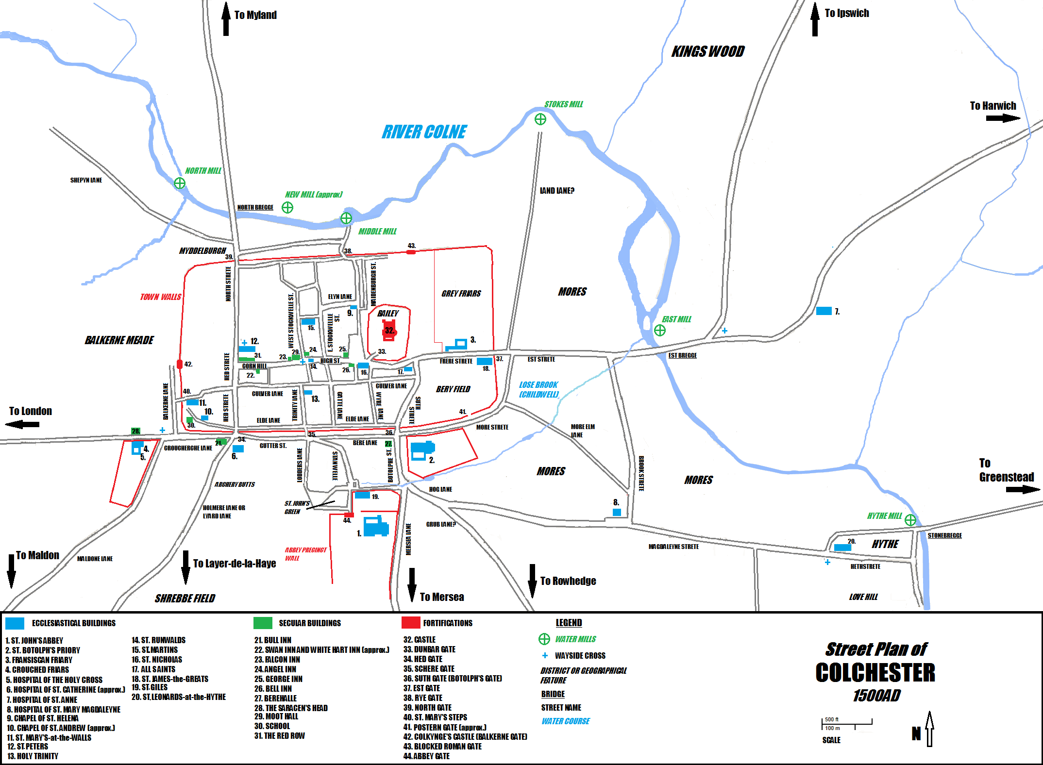 A street map of Colchester in Essex from 1500AD, showing main roads and features.